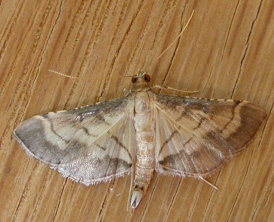 Cnaphalocrocis poeyalis, moth, picture taken New South Wales, Australia